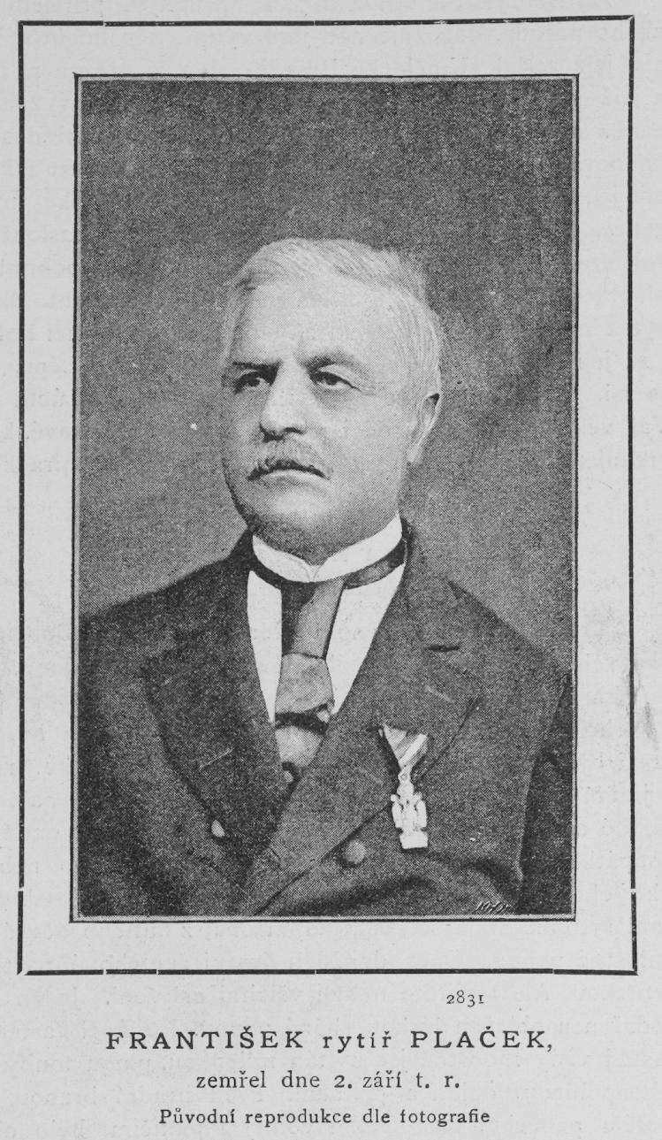 Portrait of František Plaček (1809 - 1888), Czech lawyer and politician.